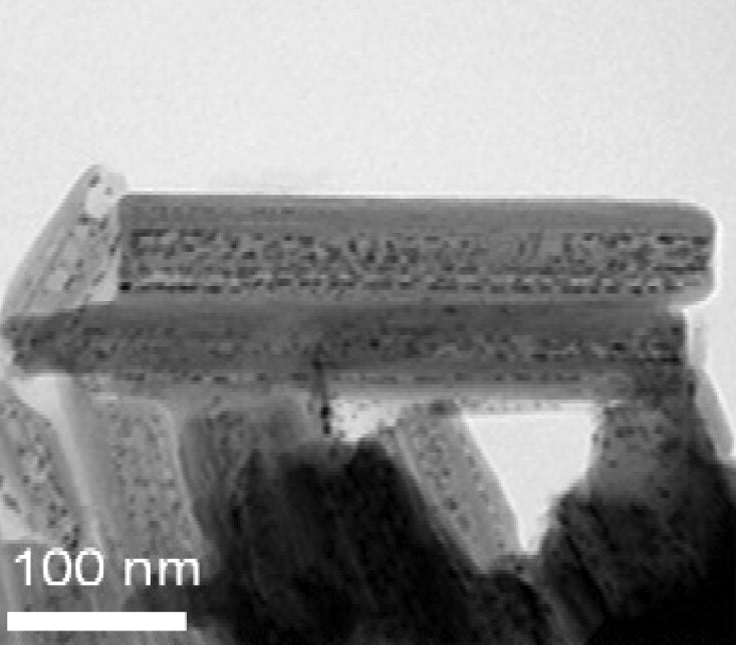 Transmission electron microscopy (TEM) of halloysite nanotubes intercalated with Ru nanoparticles bound through Schiff bases.